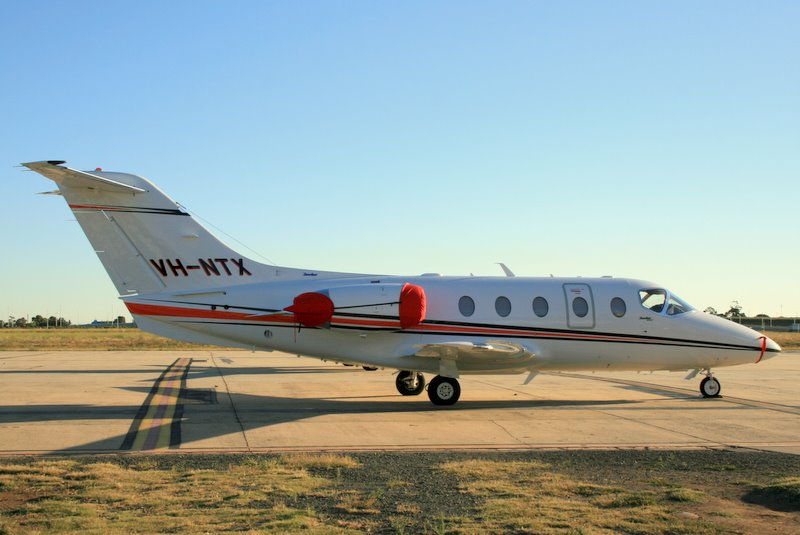 A Hawker 400XP business jet parked at Melbourne's Essendon Airport in Australia.